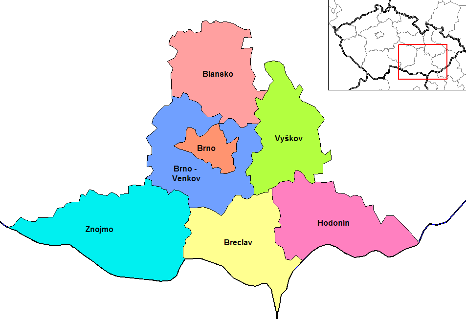 Map of the districts of South Moravia region of the Czech Republic. Created by Rarelibra 15:29, 2 January 2007 (UTC) for public domain use, using MapInfo Professional v8.5 and various mapping resources.